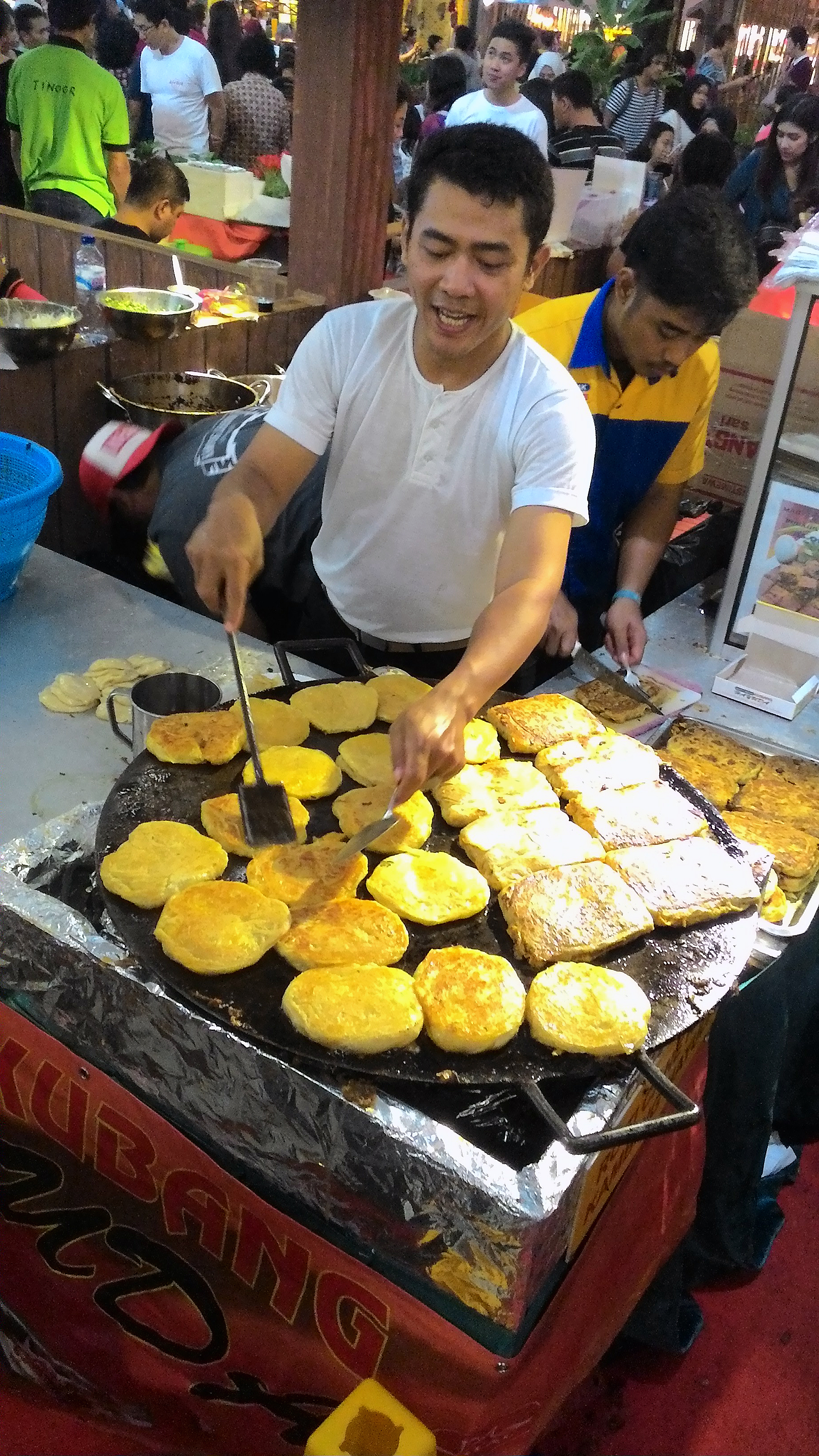 Martabak and roti cane preparation in Martabak Kubang food stall, during Kampoeng Legenda food festival, Mal Ciputra, West Jakarta, Indonesia.